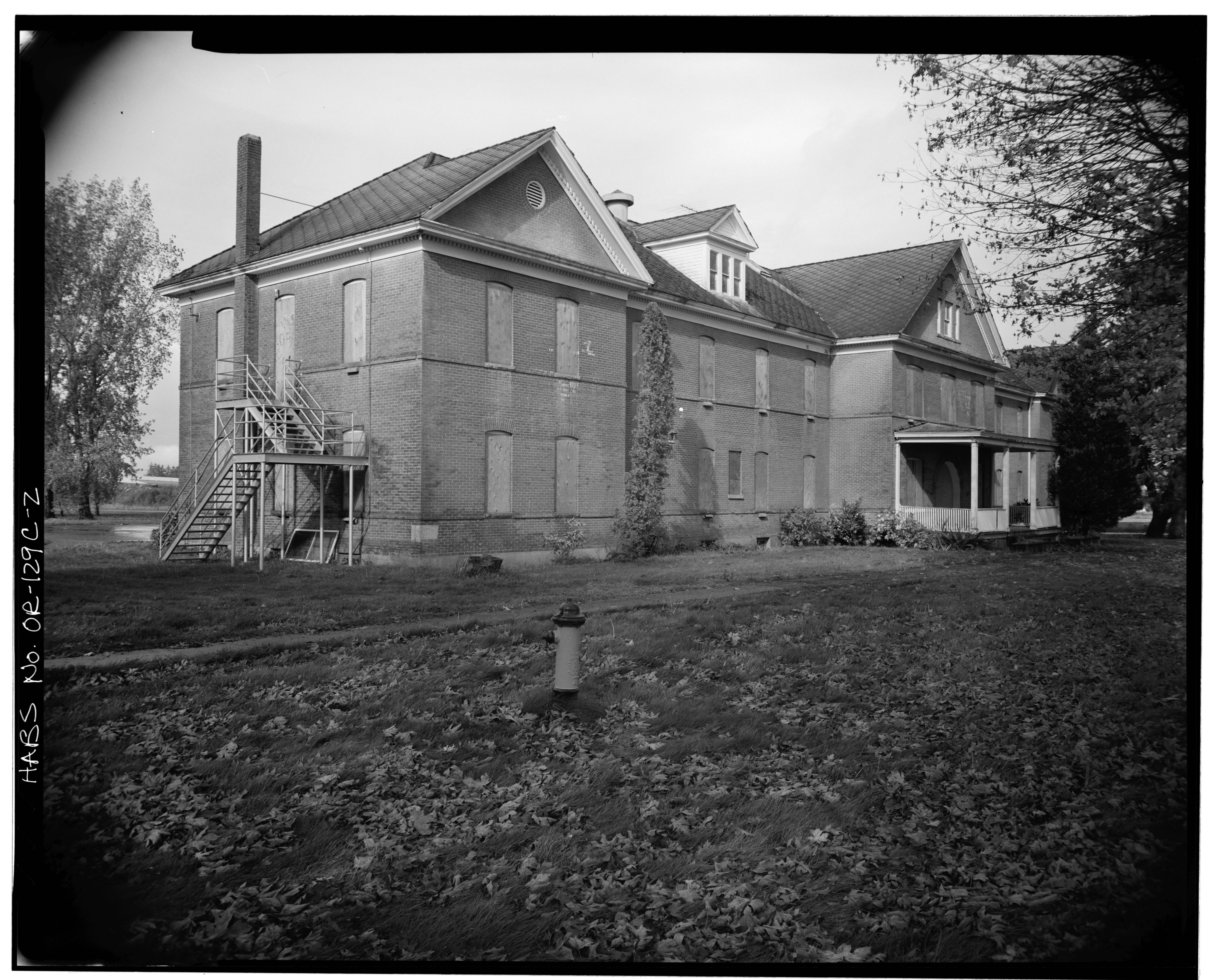 McBride Hall — Chemawa Indian School, Salem, Marion County, Oregon. Built 1902; demolished 1978. Former National Register of Historic Places listing. 1977 photograph from the HABS—Historic American Buildings Survey images of Oregon. LOC card text "5495 Chugach St, N.E. Red brick on concrete foundations with wooden and stone trim, rectangular with center and end projections 114' (sixteen-bay front) x 35', two-and-a-half stories, hip and gable roofs with pedimented gable ends and gable dormers, denticulated cornice, three-bay hip-roof entrance porch with wooden railing, double doors with fanlight, segmental arched window heads with stone sills, brick belt course at sill level of each floor; dormitory, main stair with classical details. Built 1902; alterations to interior, n.d.; demolished 1978. 4 ext. photos (1977), 6 int. photos (1977). Also see Chemawa Indian School (OR-129). Card prepared 1979." CALL NUMBER: HABS ORE,24-SAL,1C- NOTE: Survey number HABS OR-129-C DIGID: CONTROL #: OR0042